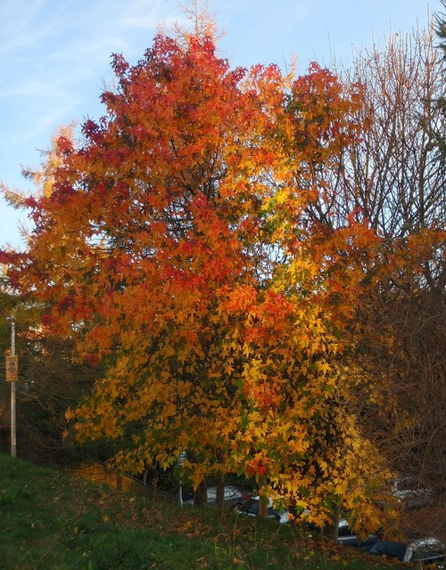 Liquidambar styraciflua, planted on Western Way, Exeter. Autumn colour opposite 1058315. Taken in the morning, but the tree faces west; the sunlight is reflected from the fenestration on the new buildings opposite.